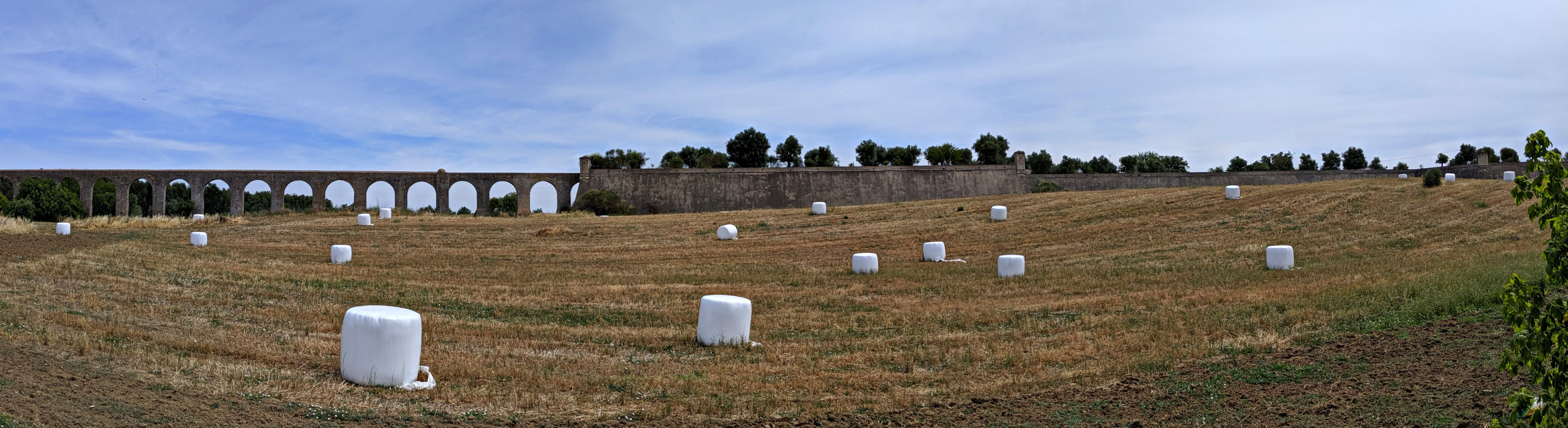 Aqueduto da Água de Prata with baled and wrapped hay, northwest of Évora, Portugal